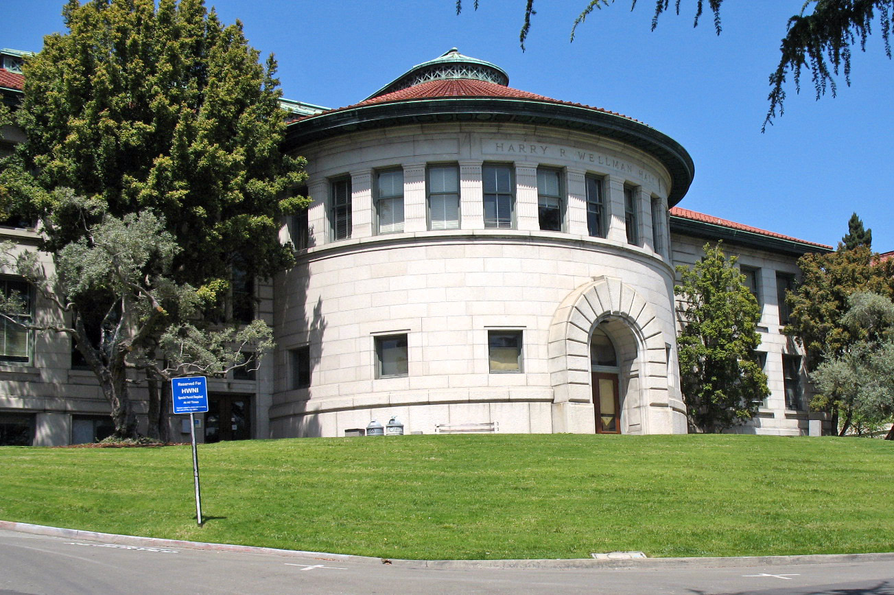 National Register of Historic Places listings in Alameda County, California. Wellman Hall, University of California, Berkeley. Photographed from the south side of Wickson Rd.